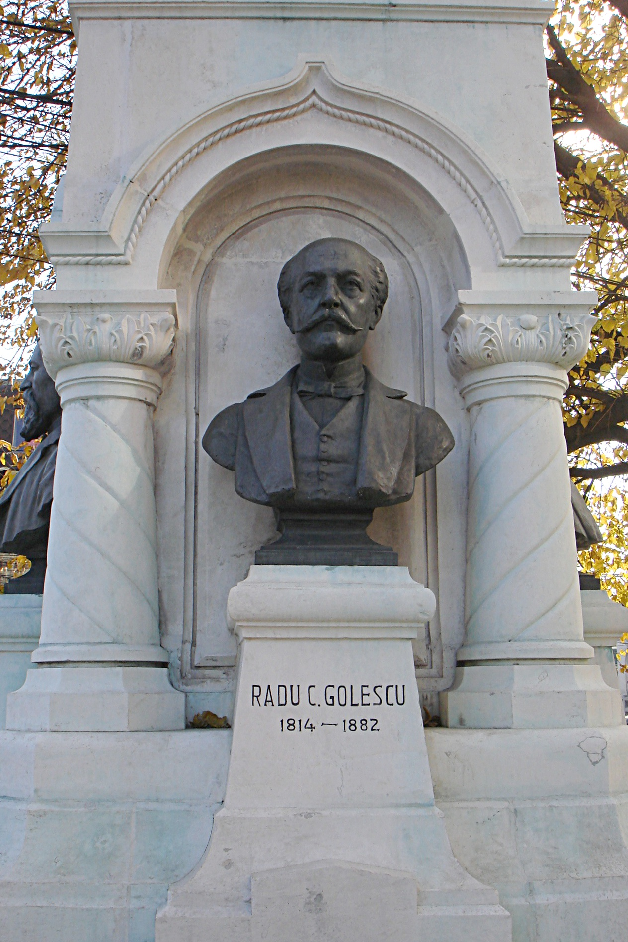 Bust of Radu Golescu, element of the Monument of Dinicu Golescu in Bucharest